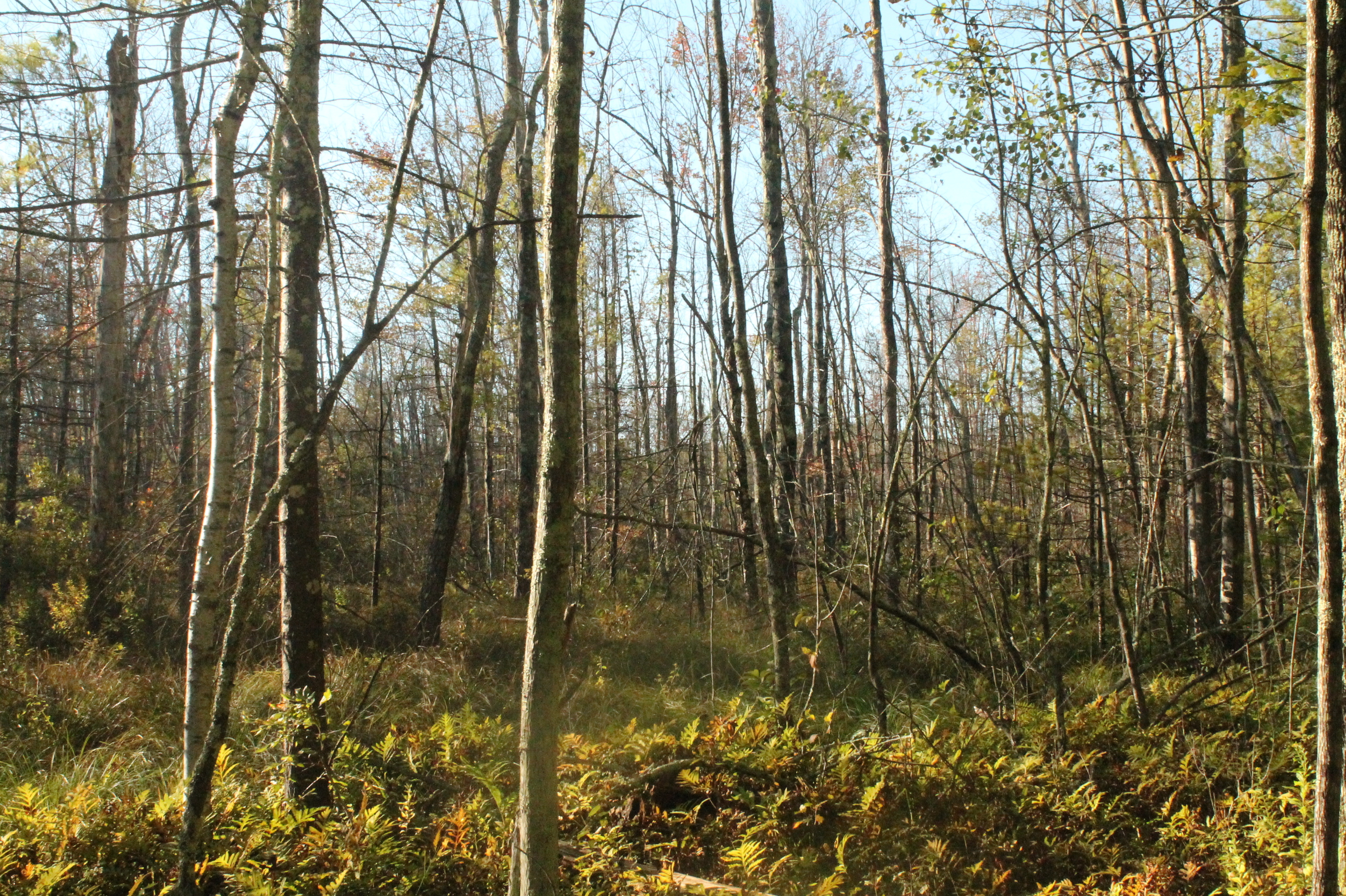 Bear Swamp Preserve on Sunday Sep 8, 2013. Copyright (c)2013 Andy Arthur. Creative Commons License.